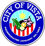 Official Seal of the City of Vista, CA